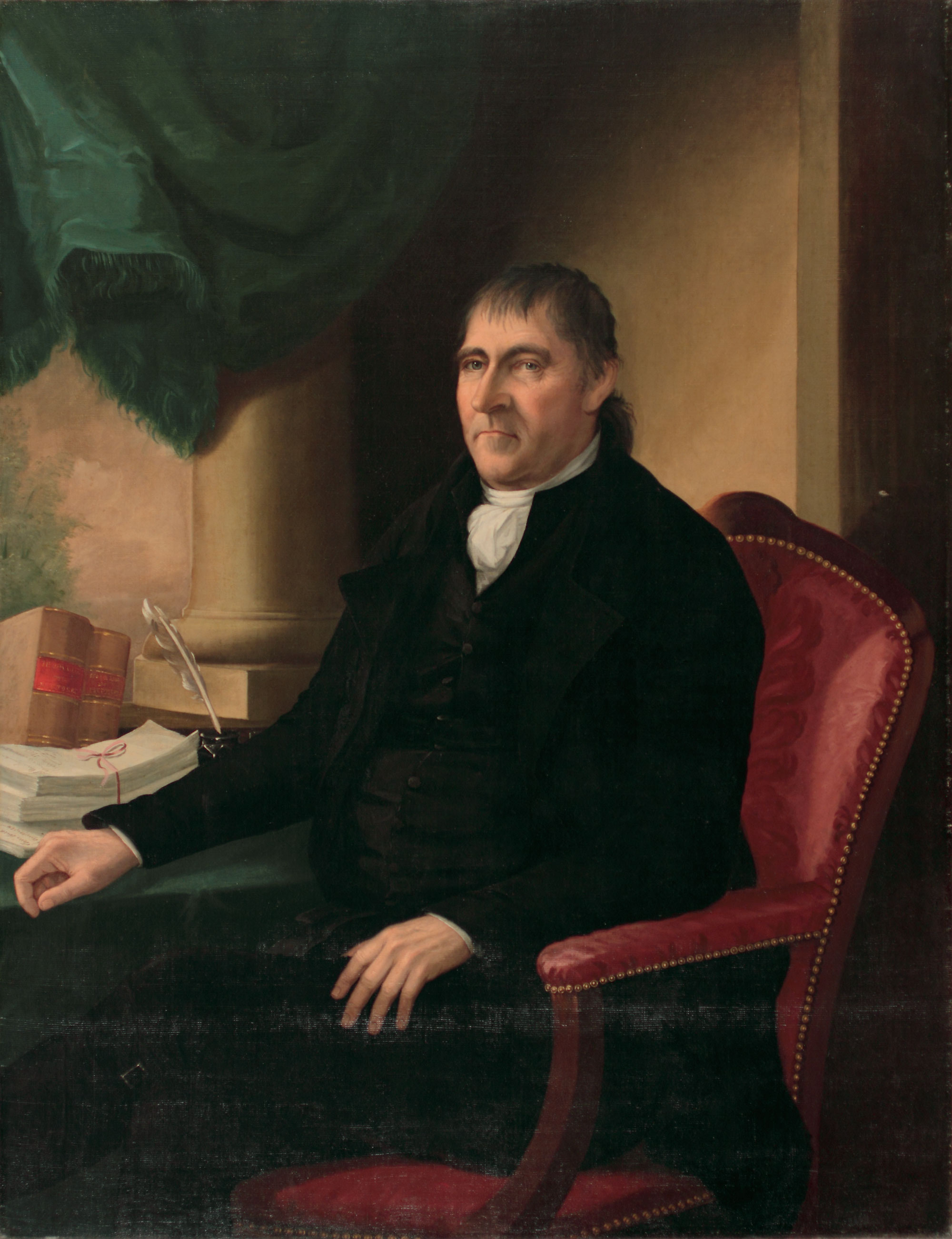 Official Gubernatorial portrait of New York Governor John Tayler.